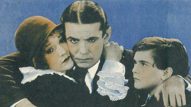 This is a movie herald or leaflet for the 1929 film Blaze O' Glory. These were given out at the local theaters before the film was shown there-a "coming attraction" type of advertising.